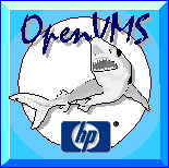 The original image was released as freeware on the OpenVMS Freeware CD 4.0 (see [1] for the original image, and [2] for information about OpenVMS freeware). As freeware, it is available for any use. The original image incorporated the logo of Digital Equipment Corporation (DEC), which created the OpenVMS operating system and owned it at the time the image was created. This version of the image substitutes the HP logo, as HP is the current owner and developer of OpenVMS. (DEC was purchased by Compaq, which was purchased by HP.) Fair use of the HP logo itself is covered at :image:Hewlett-Packard.svg.